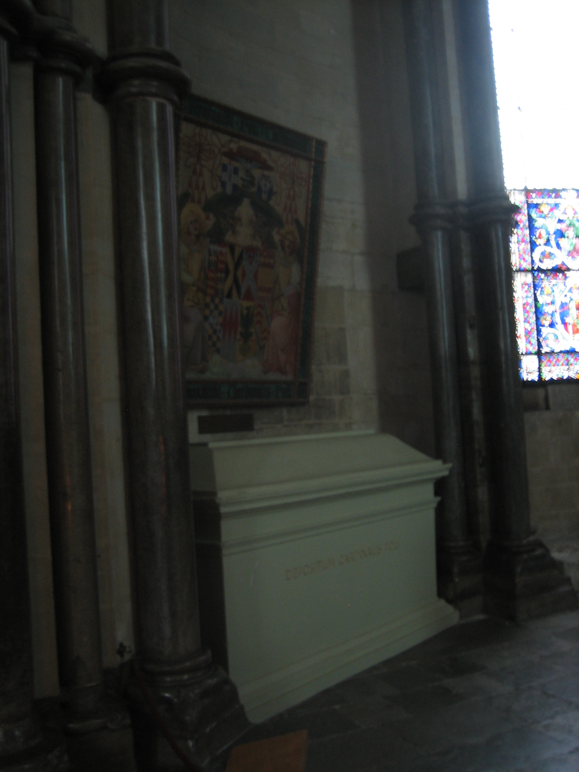 Tomb of Cardinal Pole